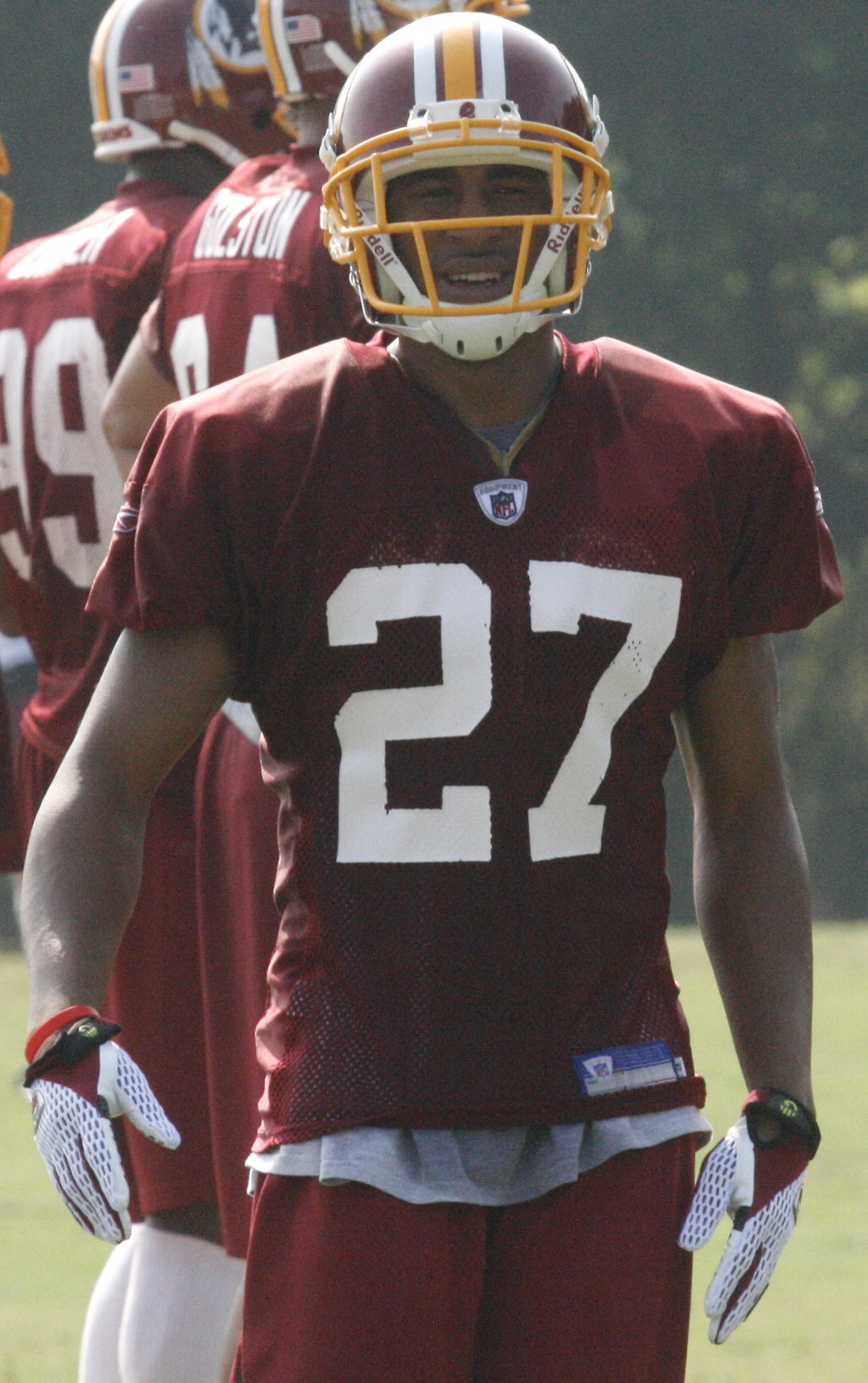 A picture of Washington Redskins CB Fred Smoot during training camp